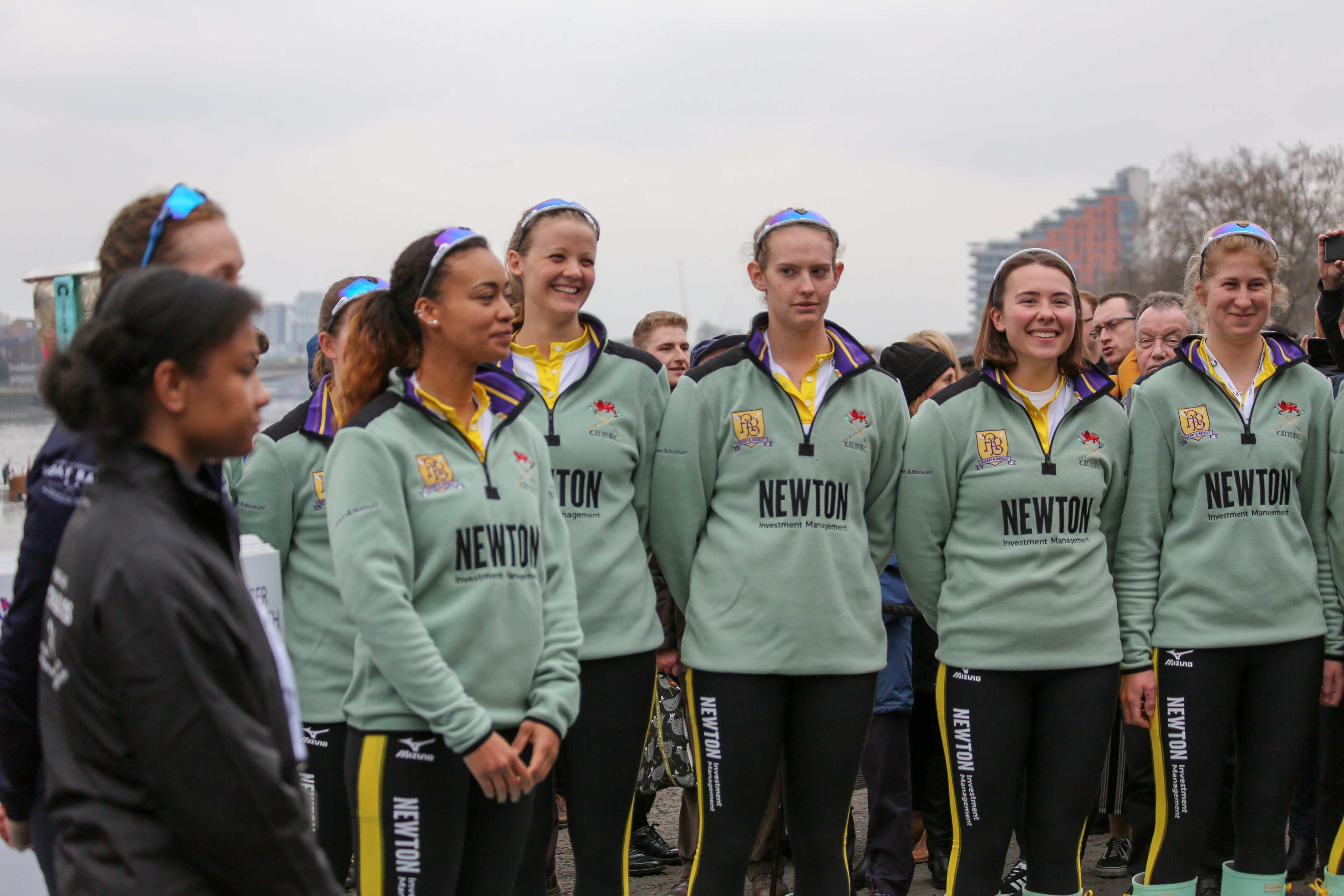 The Cancer Research UK Boat Race 2018 - Women's Reserve Race - Coin Toss Reserve crew were Lucy Pike (Trinity Hall), Emma Andrews (Pembroke), Daphne Martschenko (Magdalene) , Anne Beenken (Peterhouse), Millie Perrin (Trinity), Pippa Dakin